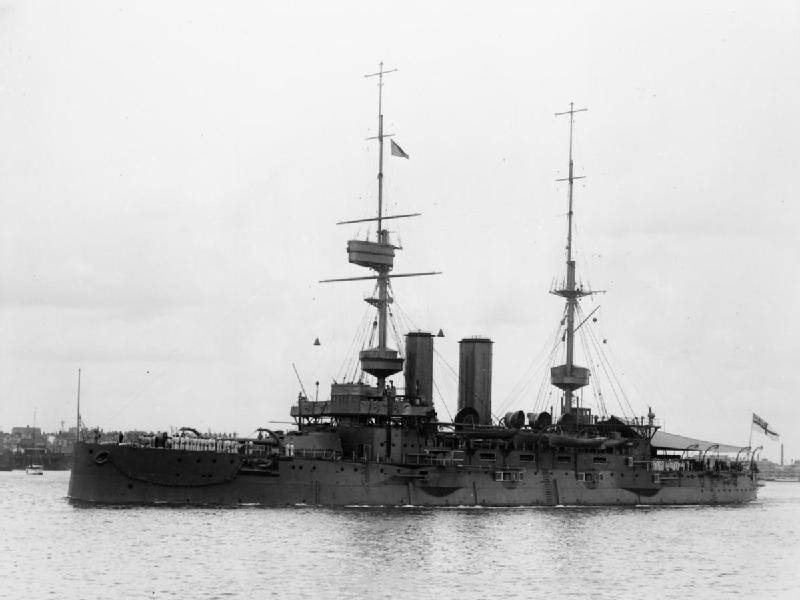 Photo of HMS Bulwark: it is a commercial photo likely taken to produce a series of postcards by H. Symonds & Co of Portsmouth, which is no longer in operation (similar set).